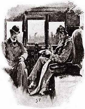 Illustration of the Sherlock Holmes short story The Boscombe Valley Mystery, which appeared in The Strand Magazine in October, 1891. Original caption was "WE HAD THE CARRIAGE TO OURSELVES."